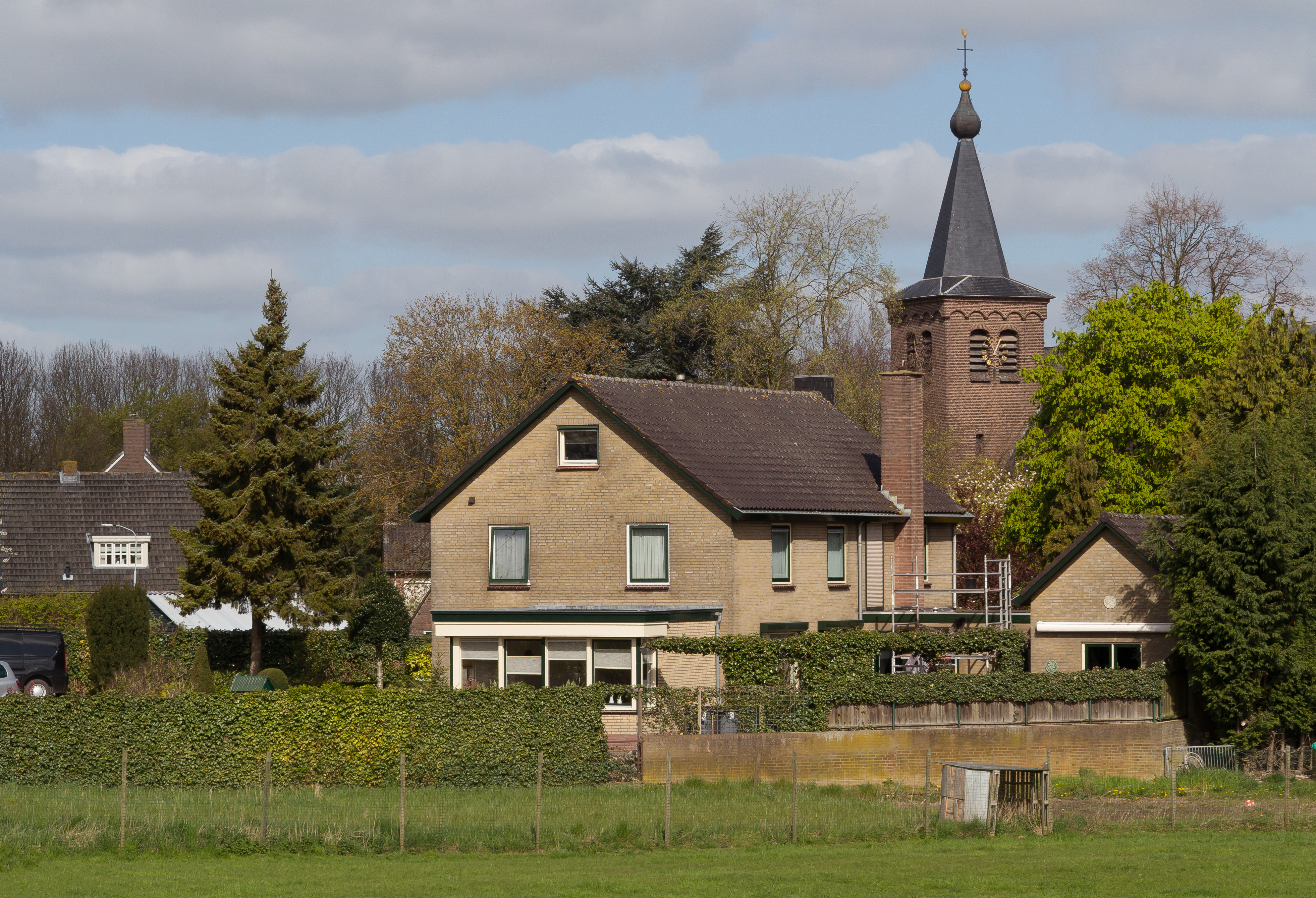 Niftrik, church tower in the village